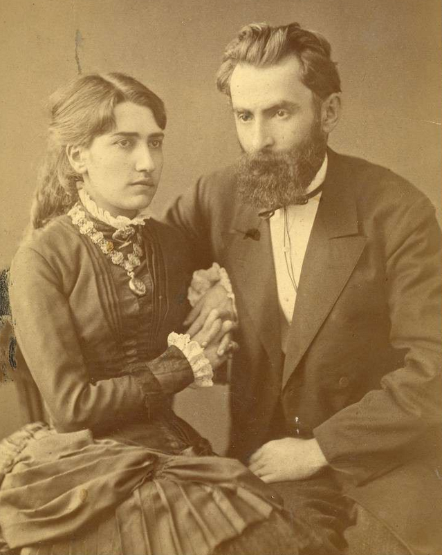 Georgian biologist and educator, Olga Guramishvili-Nikoladze, and her husband, writer Niko Nikoladze.